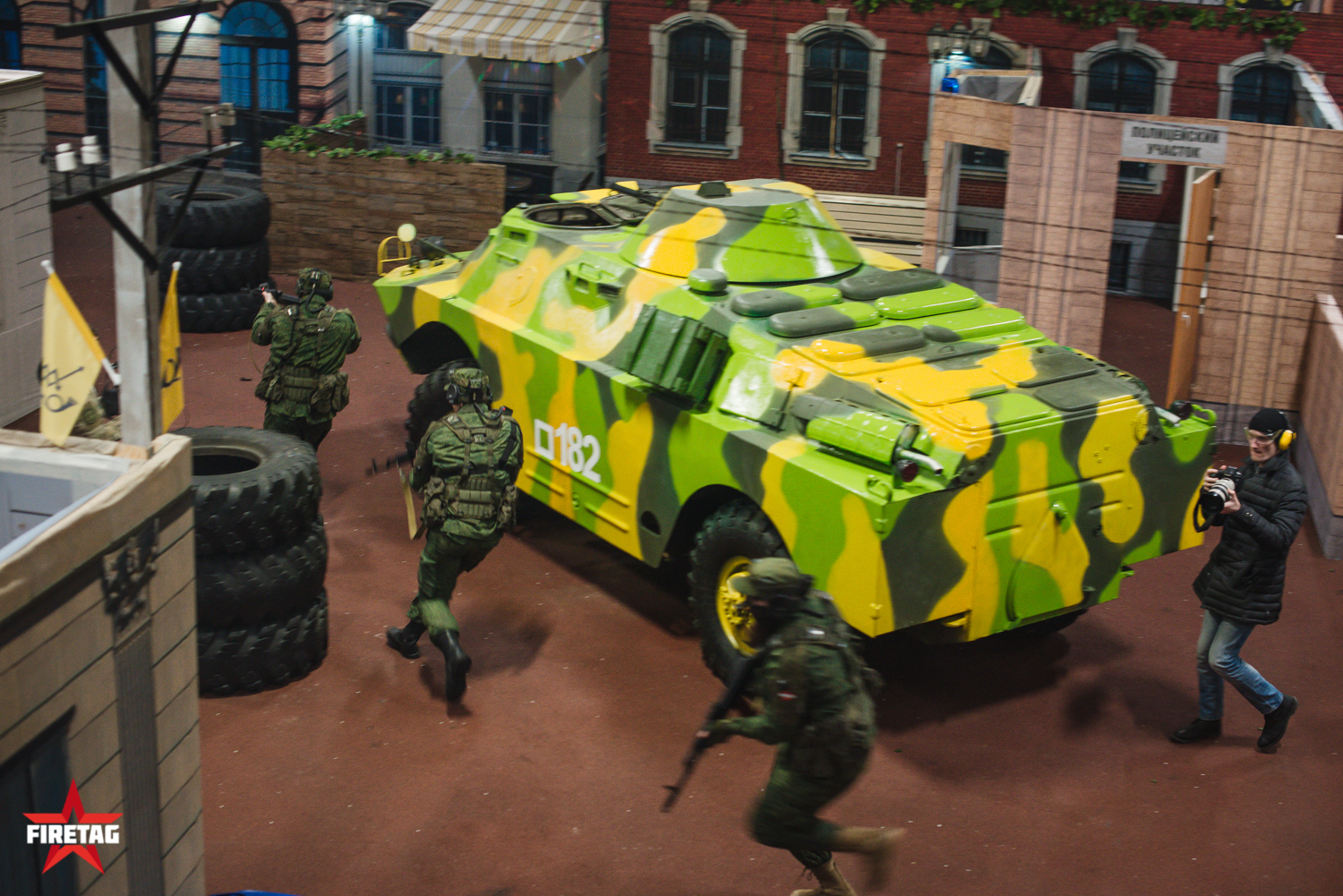 Игра в парке "Патриот"